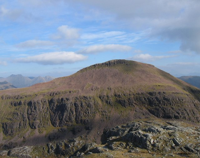 Ruadh Stac Mor Taken from high up on A'Mhaighdean